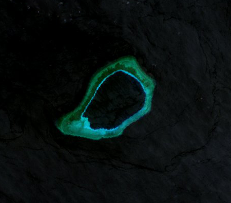 Subi Reef is an atoll of Spratly Islands.